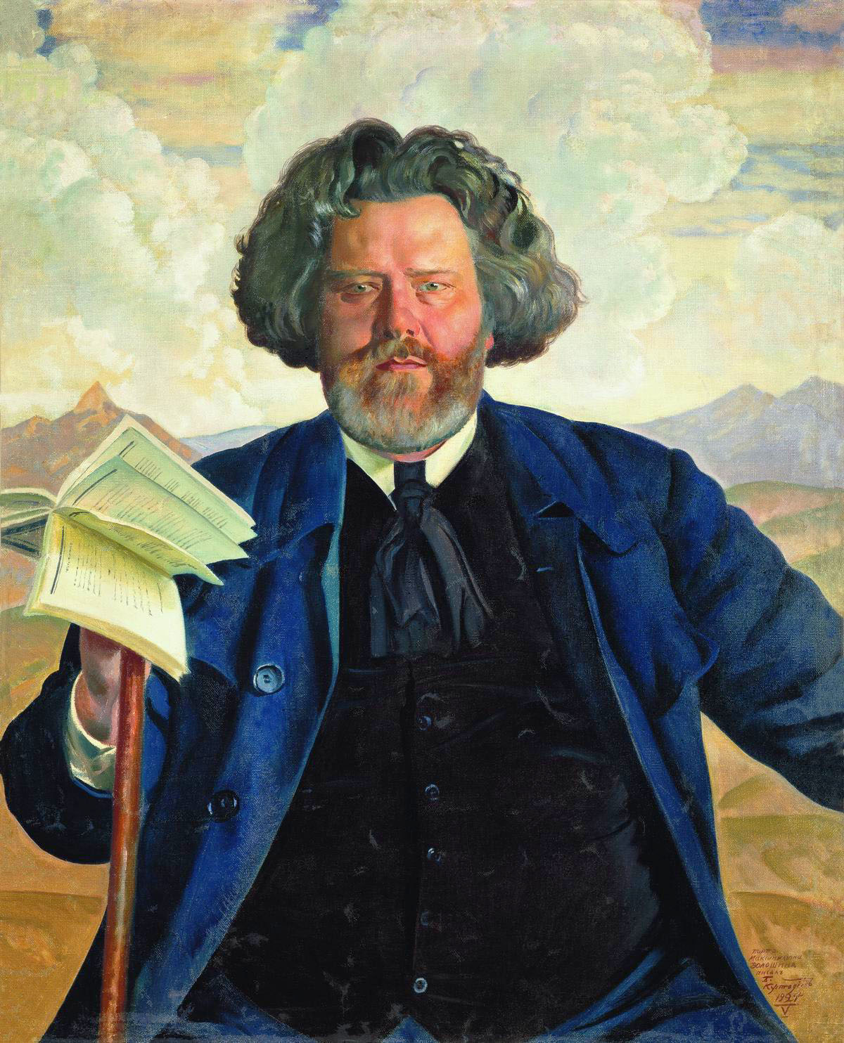 Portrait of the Poet M. Voloshin.